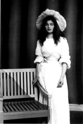 Julie Manet (1878-1966) french painter, daughter of Berthe Morisot